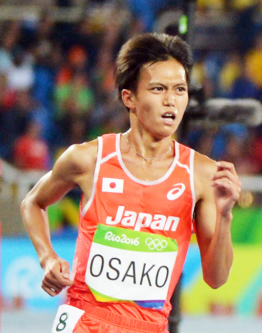 Spcs. Leonard Korir and Shadrack Kipchichir finish 14th and 19th respectively in the men's 3,000-meter run Aug. 13 at the 2016 Rio Olympic Games in Rio de Janeiro. Both Soldiers in the U.S. Army World Class Athlete Program turned in their season-best performaces, with Korir finishing in 27 minutes, 58.65 seconds and Kipchirchir clocked at 27:58.32. Mohamed Farah of Great Britain successfully defended his Olympic crown by winning the race in 27:05.17. Paul Kipnetech Tanui of Kenya took the silver in 27:05.64, and Tamirat Tola of Ethiopia claimed the bronze in 27:06.27.